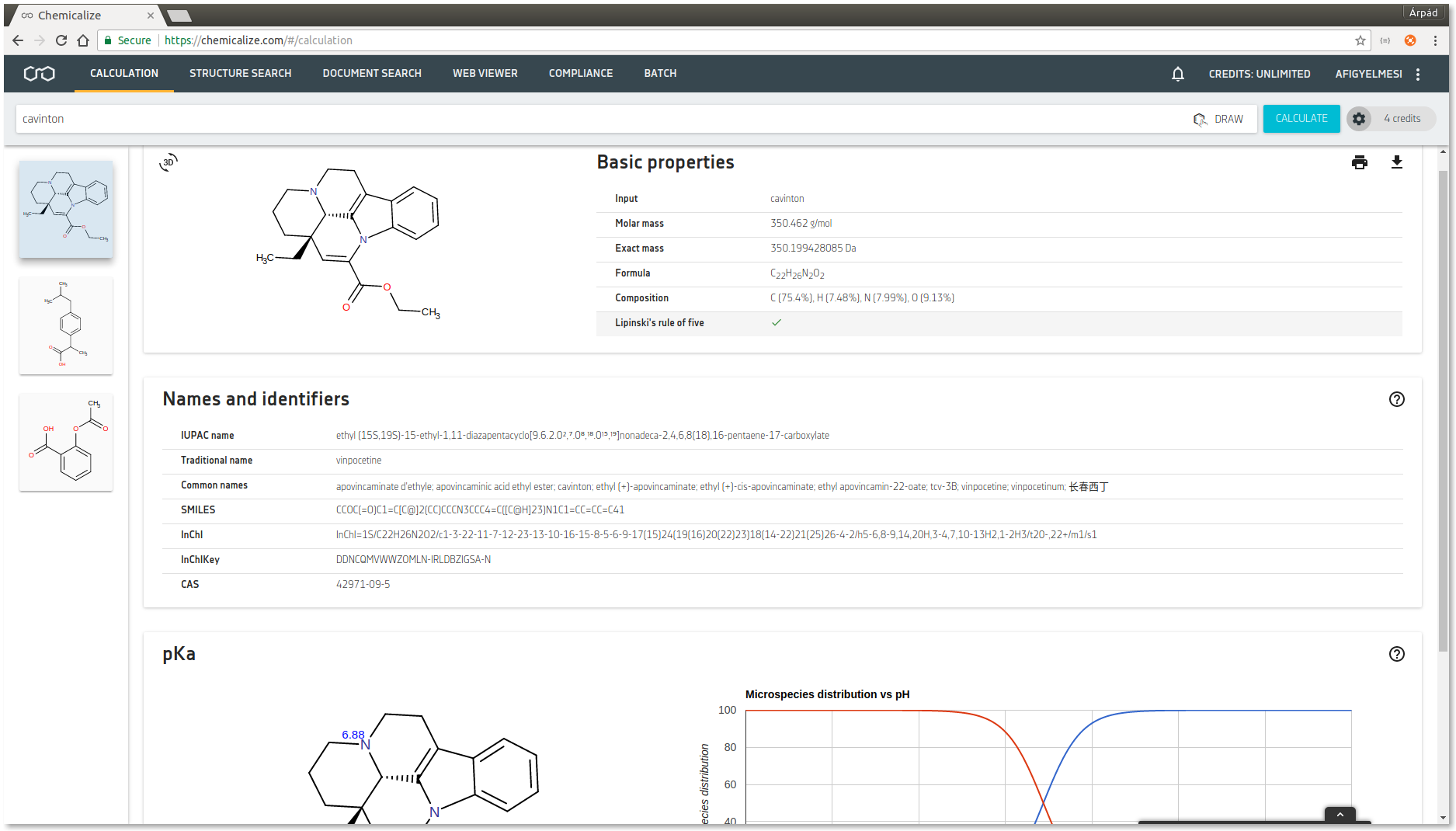 Chemicalize calculation view